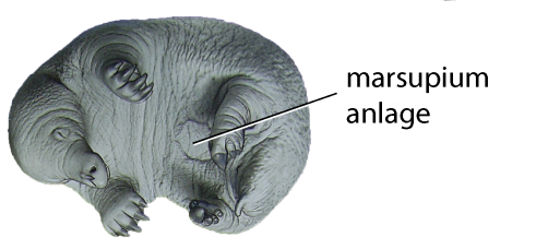 Standard Event System character depiction